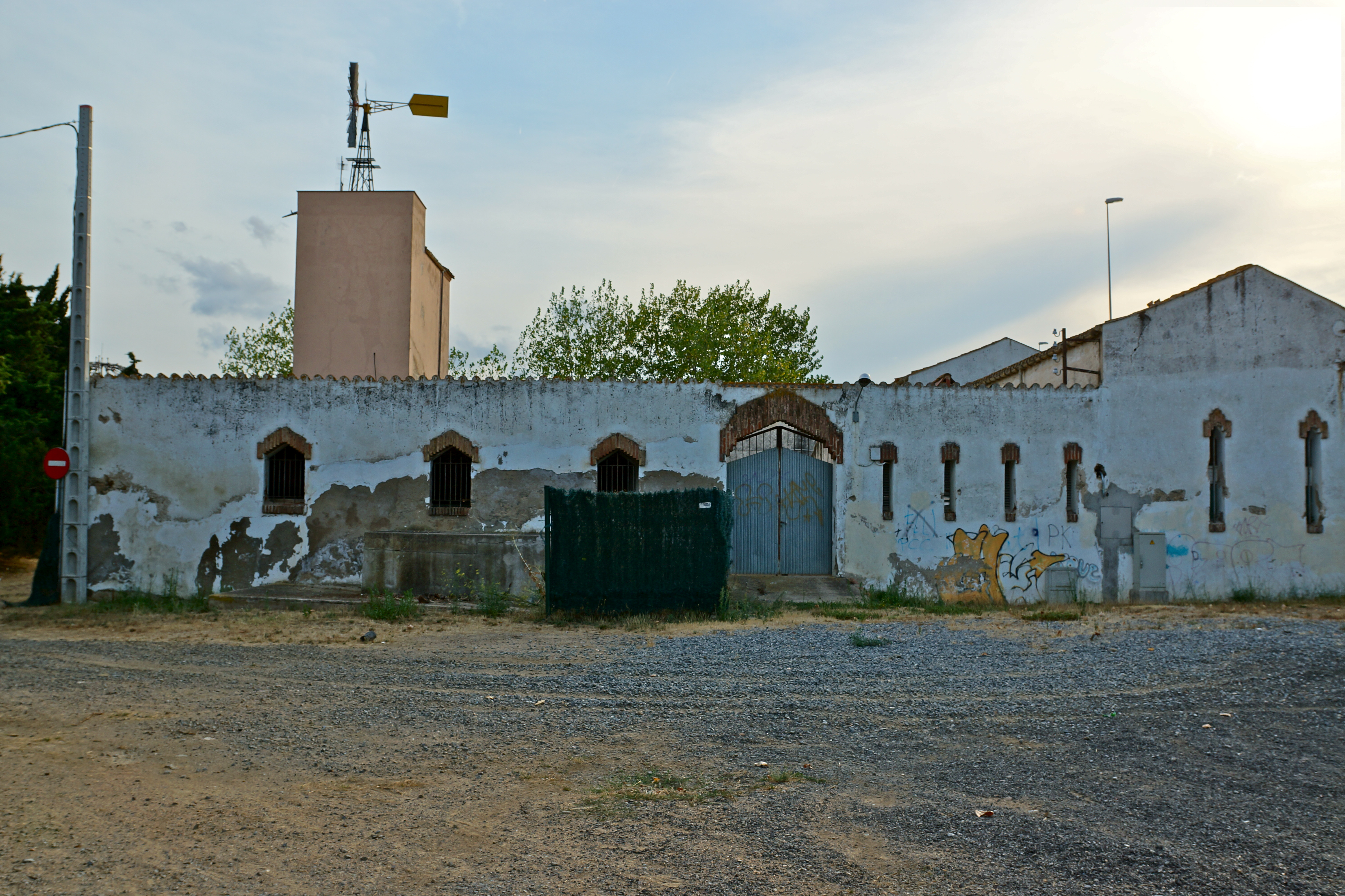 Calonge, Catalonia: Former slaughtery house, northern front, monument